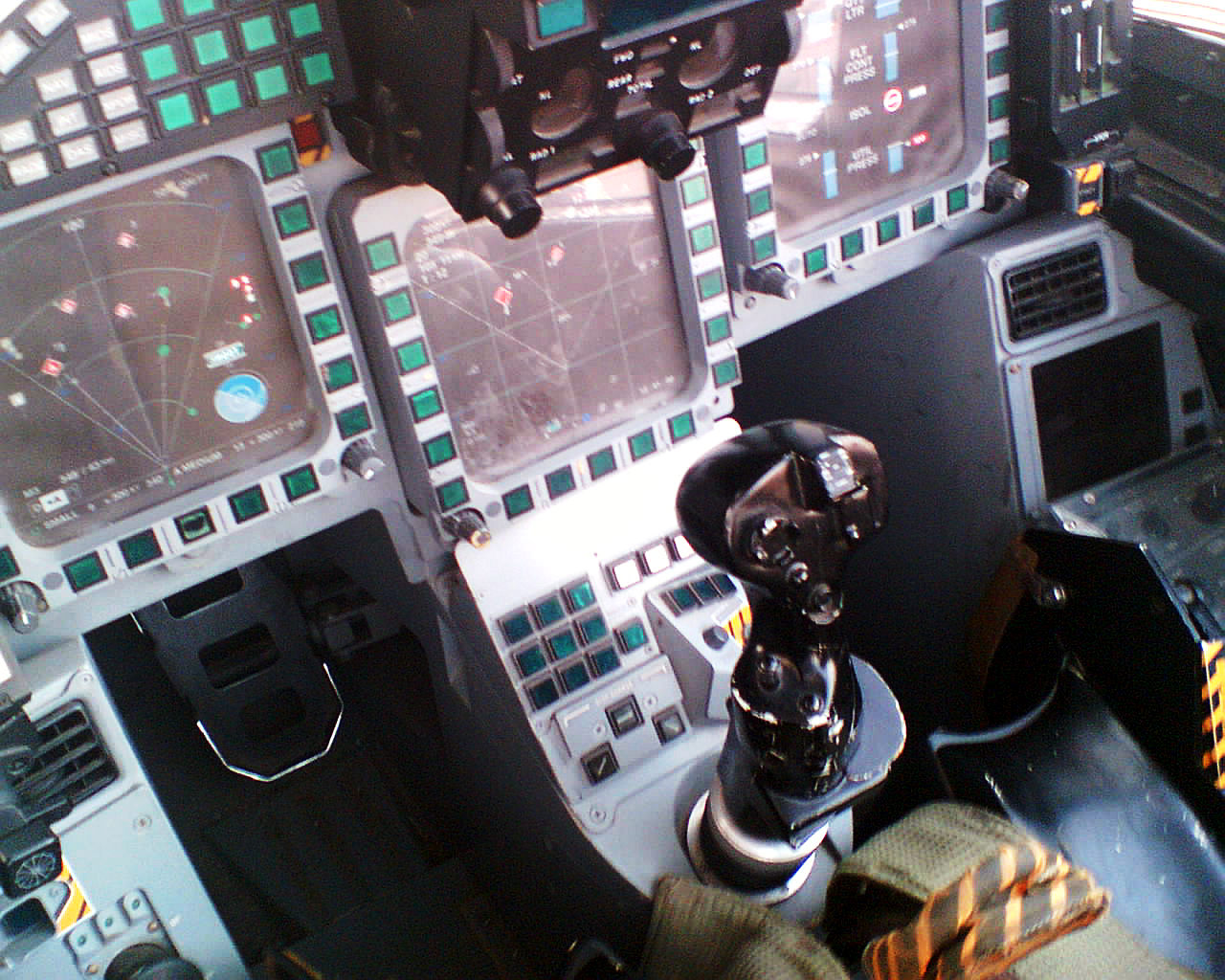 Take-off of the Eurofighter Typhoon